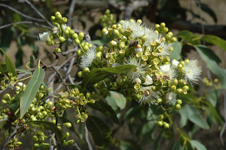 Flower buds and flowers of Corymbia torelliana in the Peter Francis Points Arboretum, Colerain, Victoria